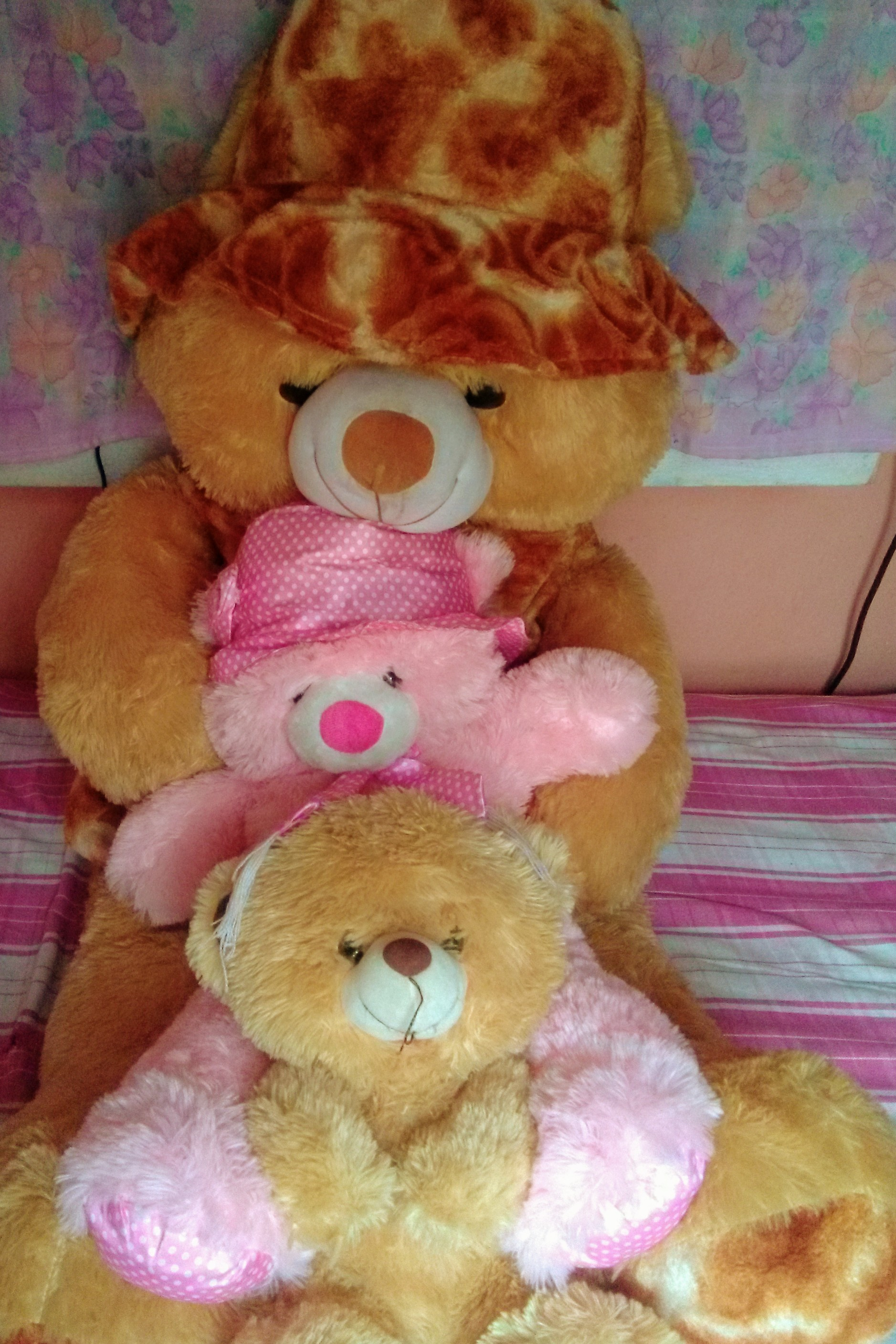 Teddy Bears